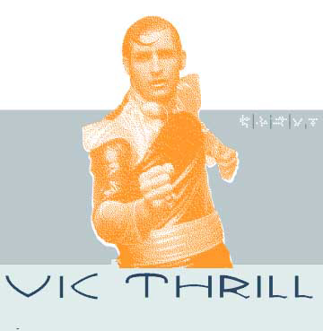 Vic Thrill in a space suite with alien alphabet